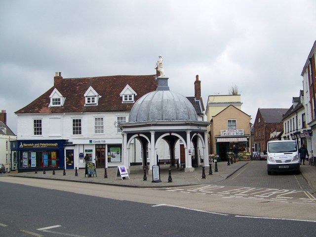 Buttercross Market, Bungay The Buttercross was rebuilt after the Great Fire of Bungay in 1688. In earlier times the Buttercross was also used as a prison with a dungeon beneath. This was replaced in Georgian times by an iron cage.